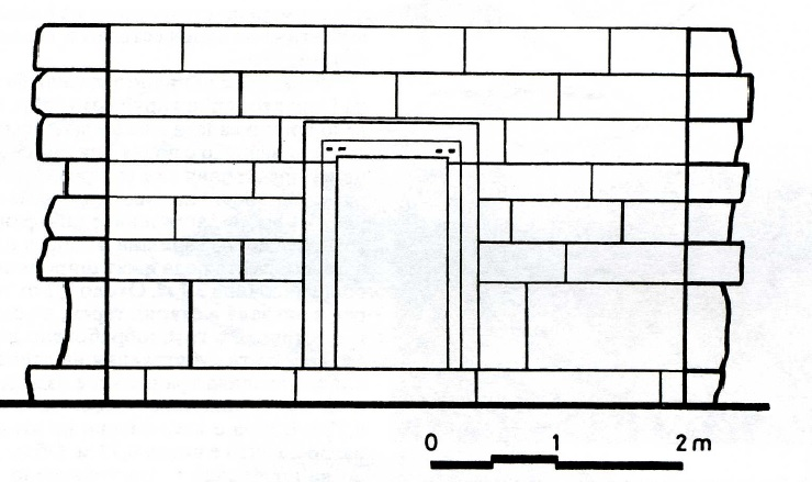 Entrance tomb Arsenalka